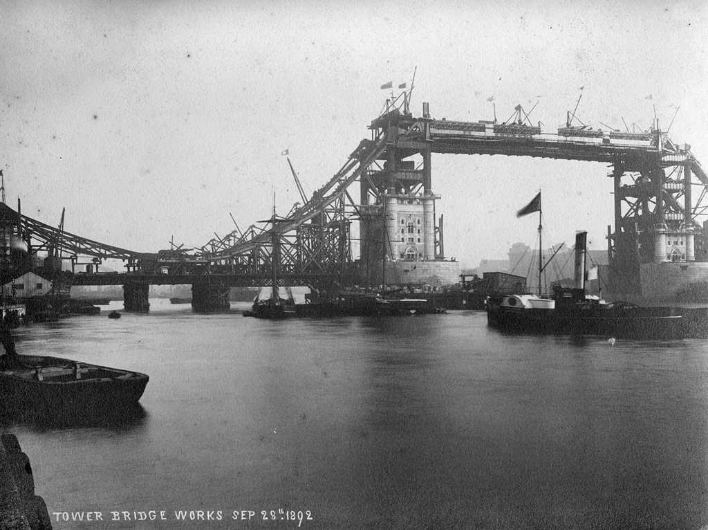 View of Tower Bridge construction works, September 28th 1892